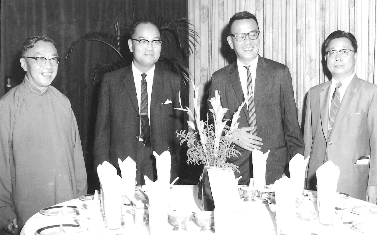 Co-founder of the Chinese University of Hong Kong, Ch'ien Mu, Li Chor-ming , Yung Chi-tung and Cheng Tung-choi (from left to right)